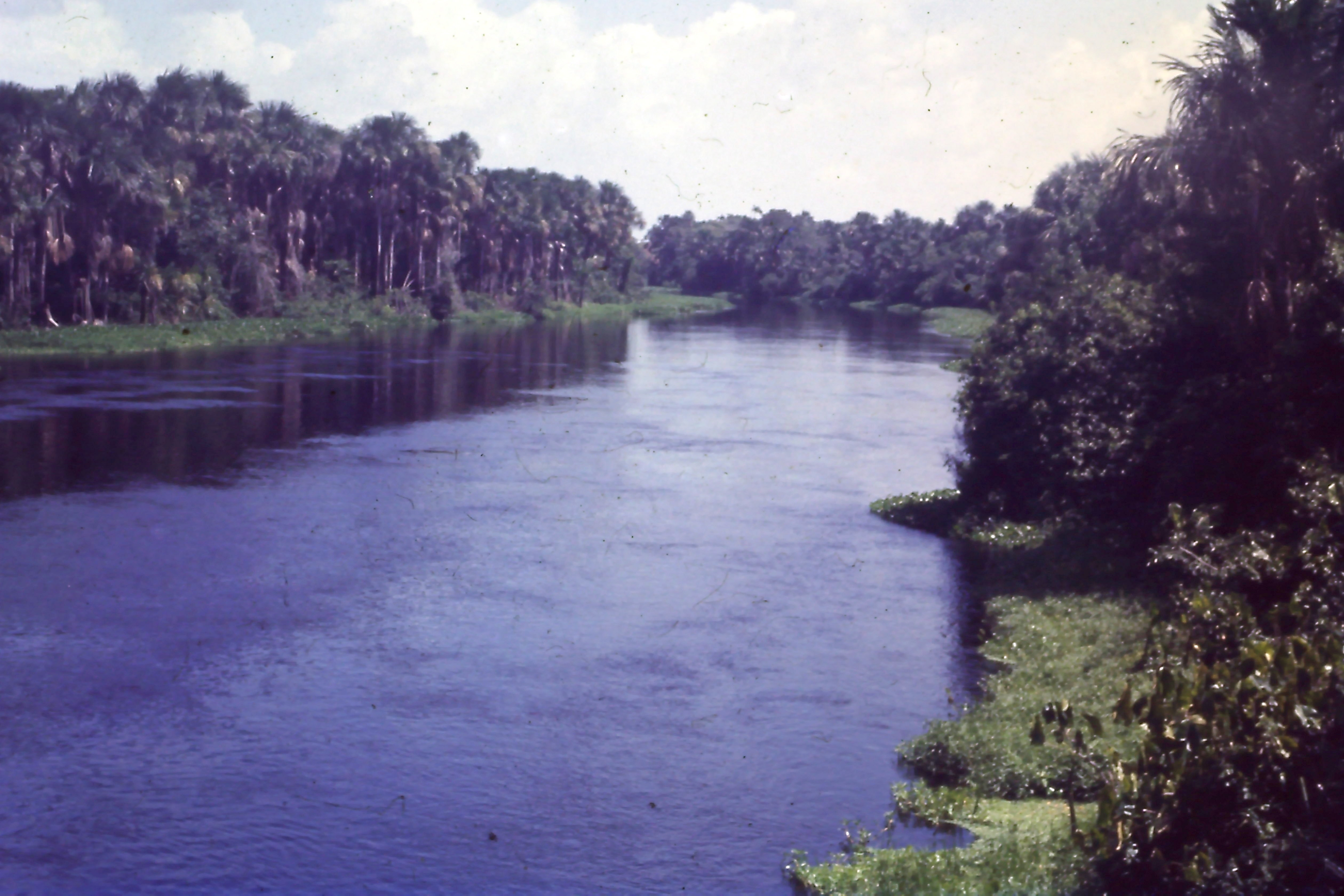 River Morichal Largo looking East from bridge on the Southern Highway, about 70 km south from Maturin.